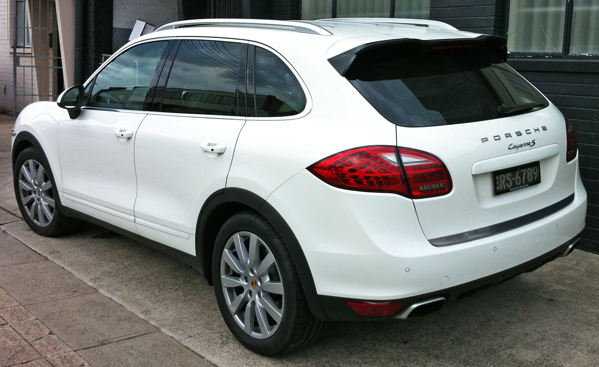 2010–2011 Porsche Cayenne (92A MY11) S wagon. Photographed in Marrickville, New South Wales, Australia.